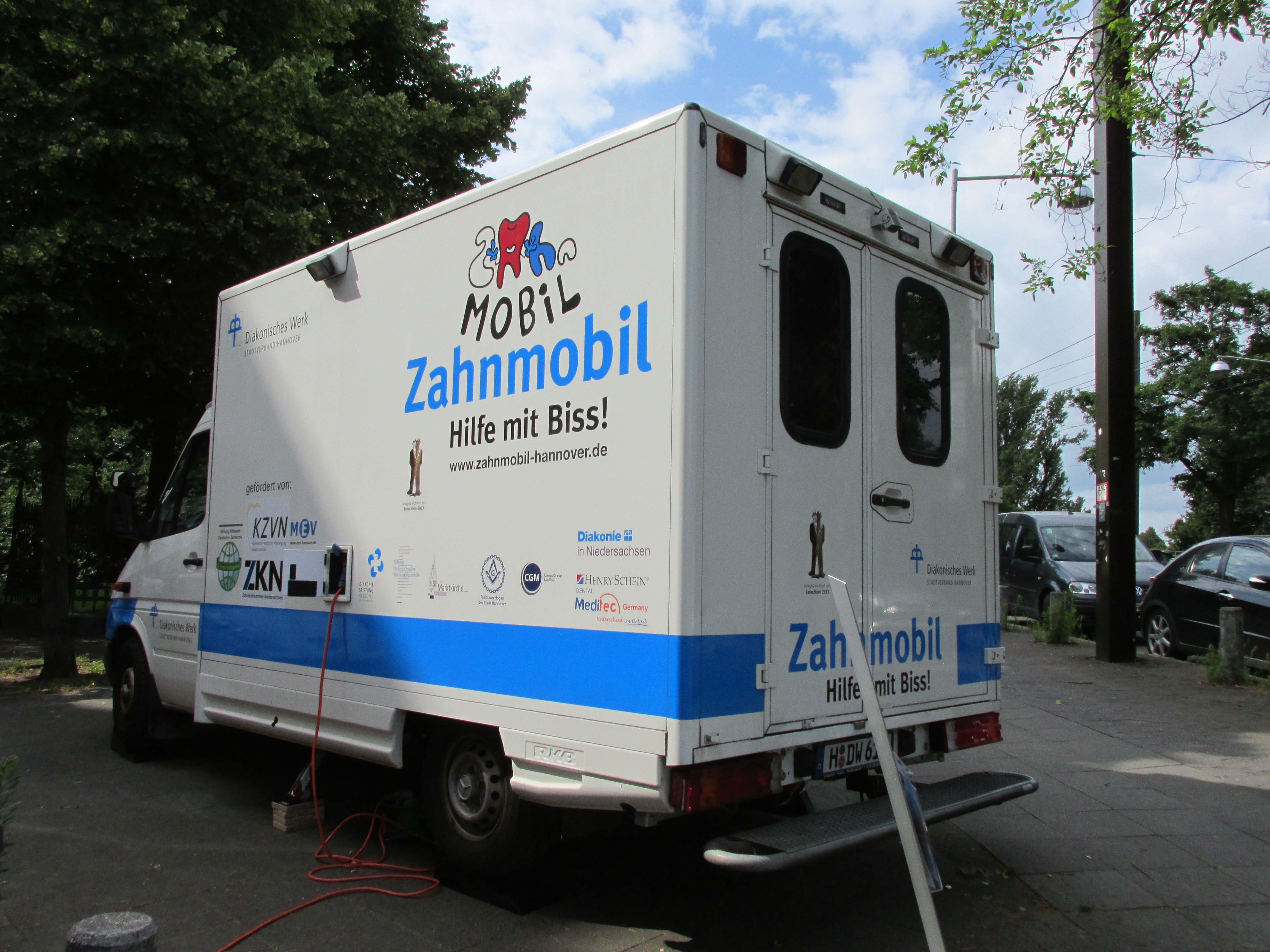 Mobile dental practice, Hanover, Germany check usage